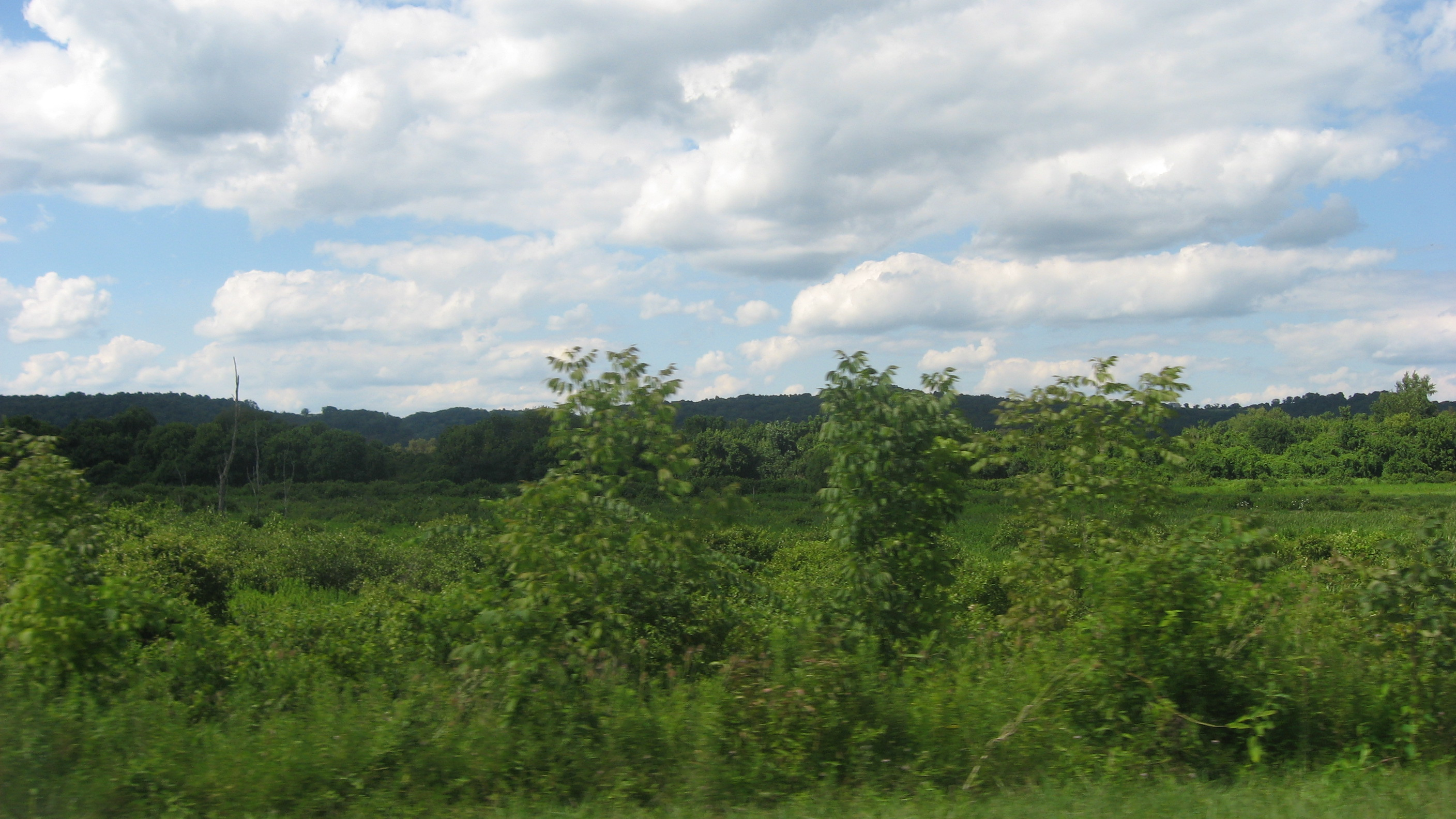 Open countryside in the Green Bottom Wildlife Management Area, seen from West Virginia Route 2 northeast of Huntington in Cabell County, West Virginia, United States. The camera looks toward the Clover Site, a leading archaeological site of the Fort Ancient culture, which has been designated a National Historic Landmark.